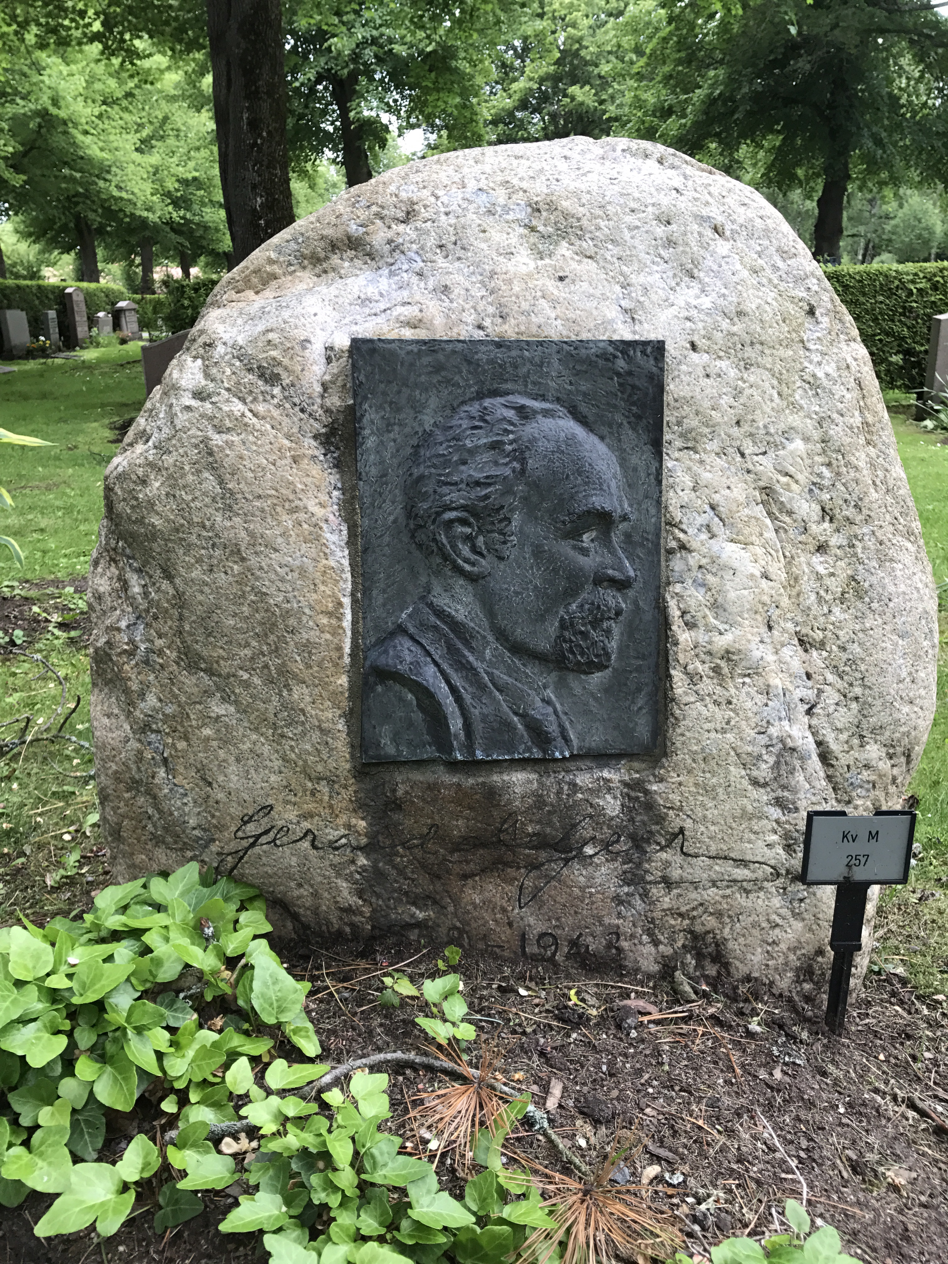 Grave